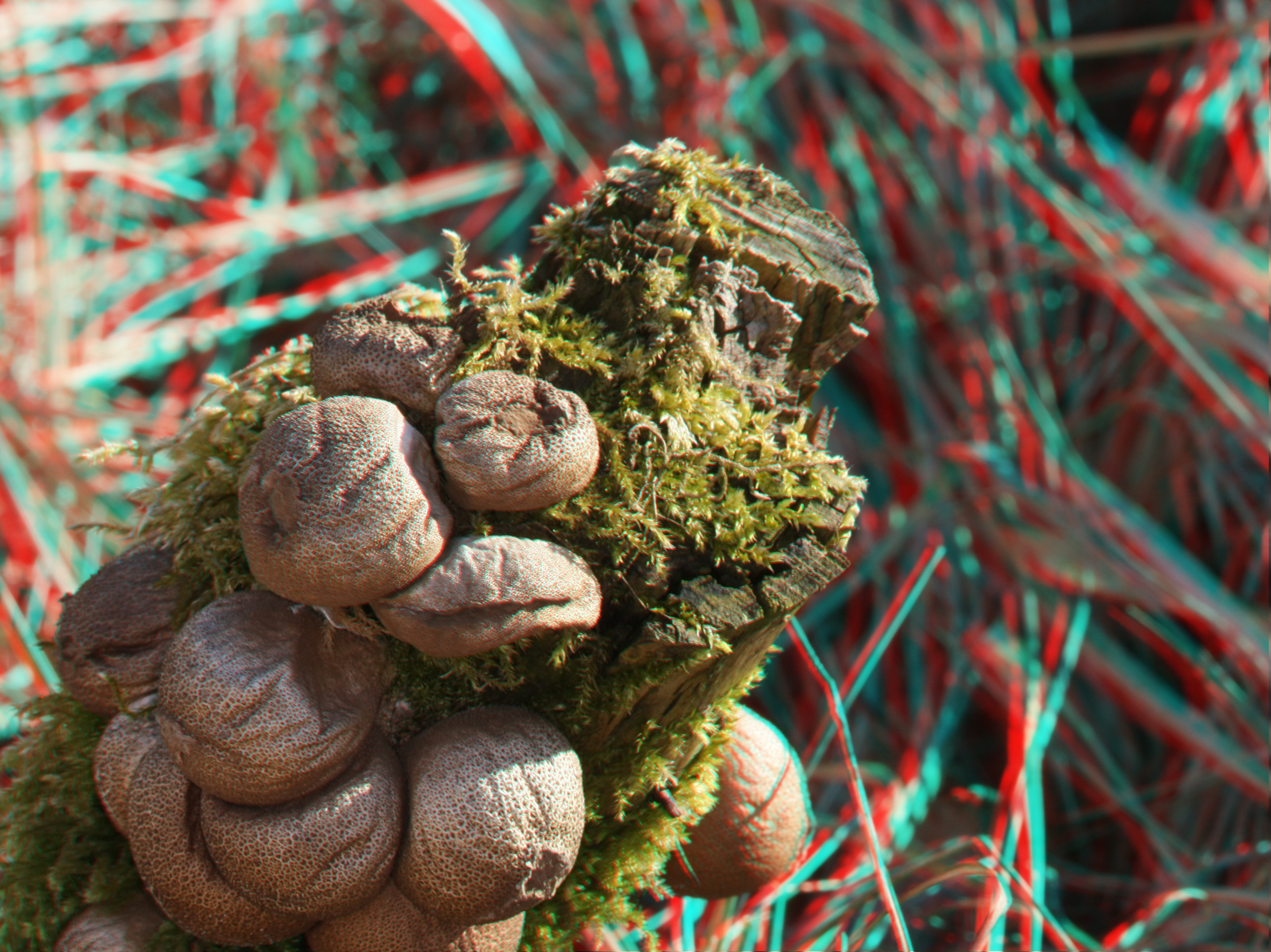 Phallus impudicus, commonly known as the common stinkhorn, is a widespread fungus recognizable for its foul odour and its phallic shape when mature. Sometimes called the witch's egg,[5] the immature stinkhorn is whitish and egg-shaped and up to 6 cm (2 in) in diameter. As shown a witch's egg